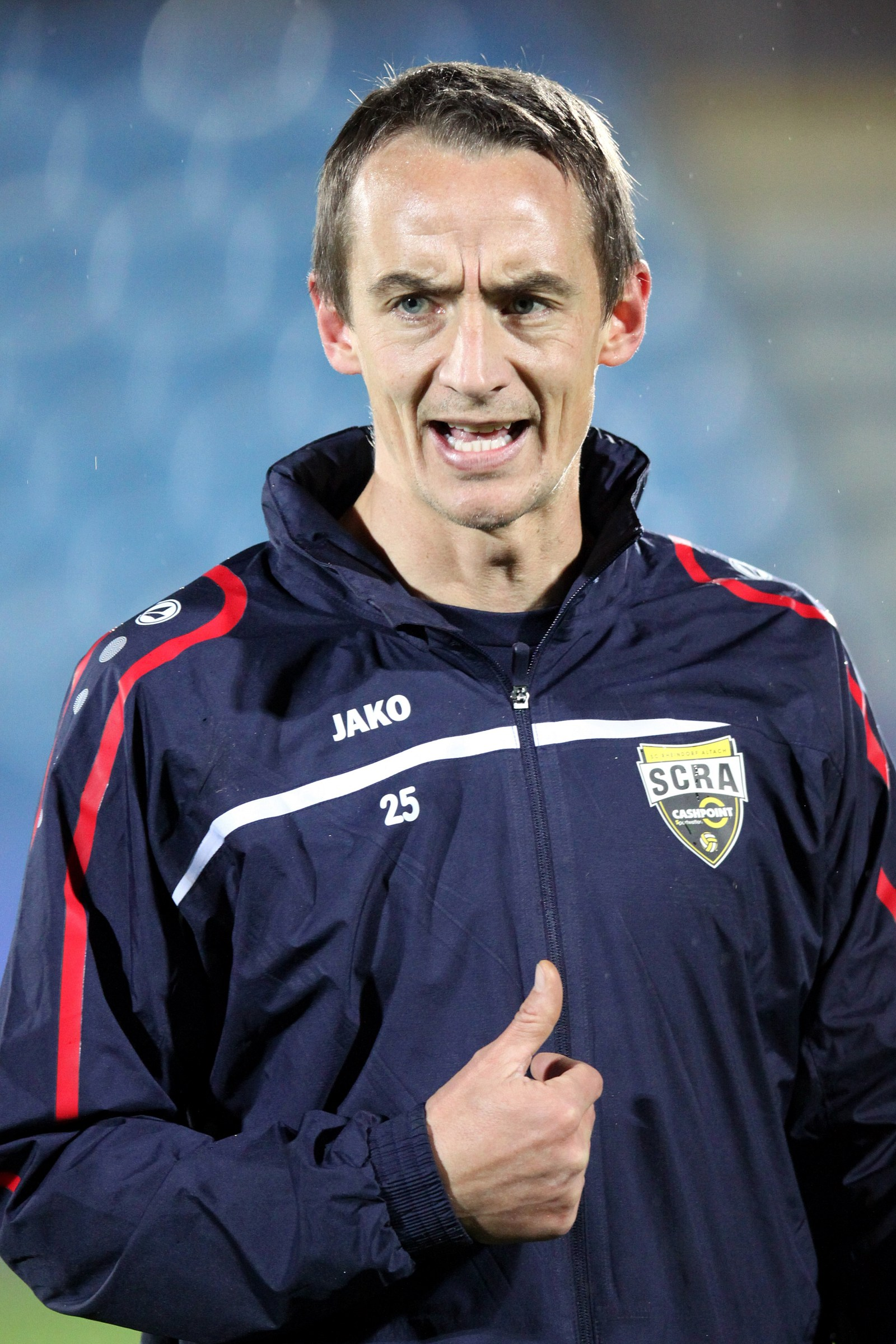 2014–15 Austrian Football Bundesliga: SC Wiener Neustadt vs. SC Rheindorf Altach (2:0 / 0:0) at 2014-12-06 in the Stadion Wiener Neustadt. – The photo shows en: (SC Wiener Neustadt/SC Rheindorf Altach). The making of this work was supported by Wikimedia Austria. For other files made with the support of Wikimedia Austria, please see the category Supported by Wikimedia Österreich.